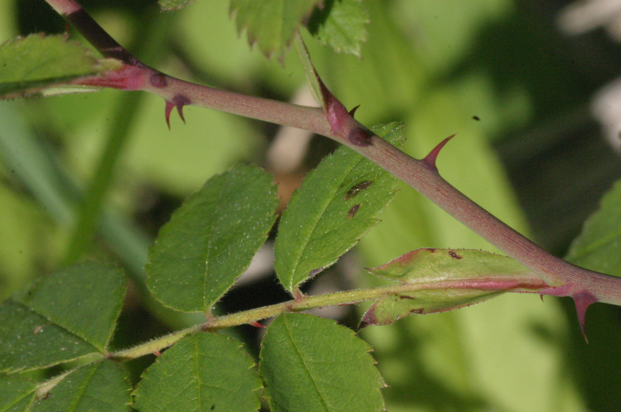 Rosa arvensis